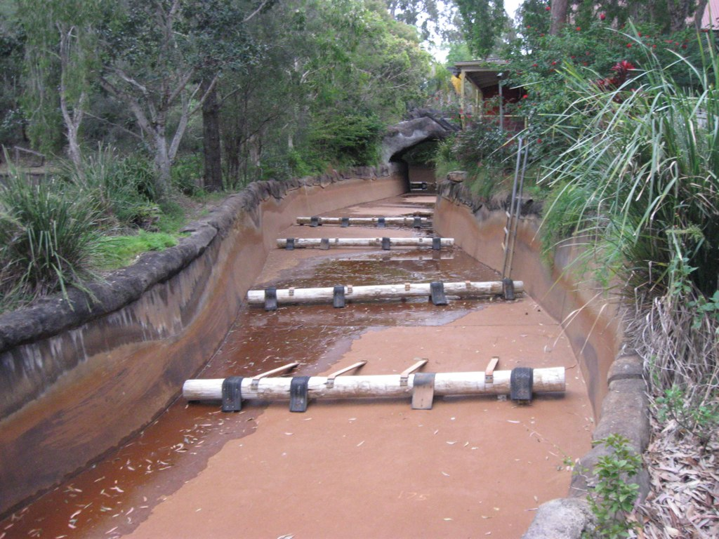 The Thunder River Rapids Ride at Dreamworld during a maintenance period.